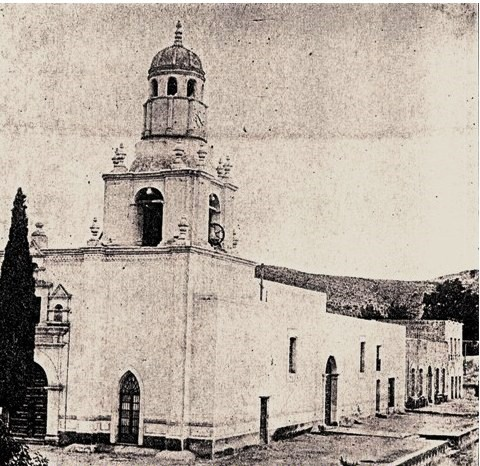 Antigua Torre del Templo de San Ignacio de Loyola